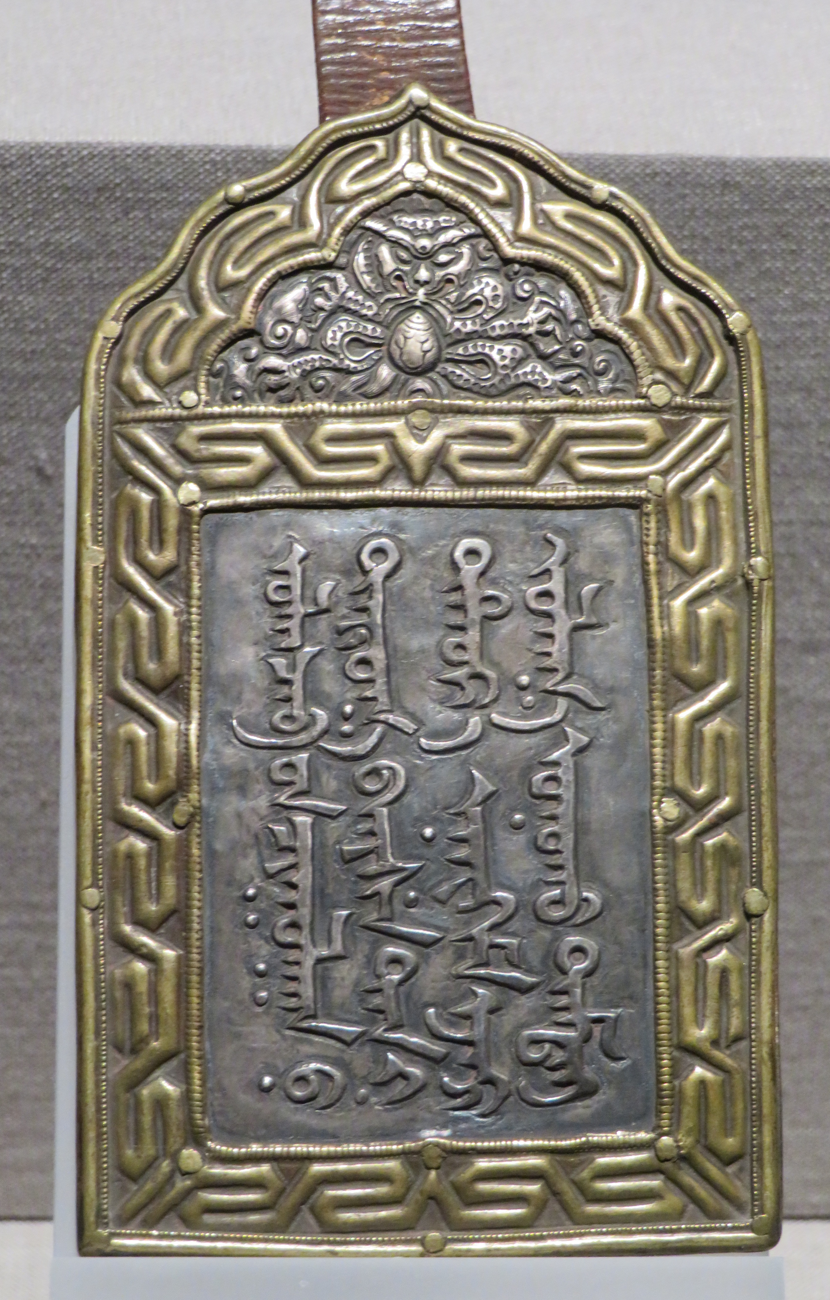 Horse-riding paizi for the head of the Wulanchabu League, with inscription in Manchu and Mongolian. Qing dynasty. Mongolian and Manchu scripts: ① ᠤᠯᠠᠭᠠᠨᠴᠠᠪ ᠤᠨ ᠴᠢᠭᠤᠯᠭᠠᠨ ᠤ ② ᠳᠠᠷᠤᠭ᠎ᠠ [᠁] ③ [᠁] ④ ᠤᠯᠠᠭ᠎ᠠ ᠤᠨᠤᠬᠤ ᠲᠡᠮᠳᠡᠭ Scholarly transliteration: ulaγančab-un čiγulγan-u daruγ-a [...] [...] ulaγ-a unuqu temdeg Modern Mongolian Cyrillic: Улаанцвын чуулганы дарга [...] [...] улаа унах тэмдэг